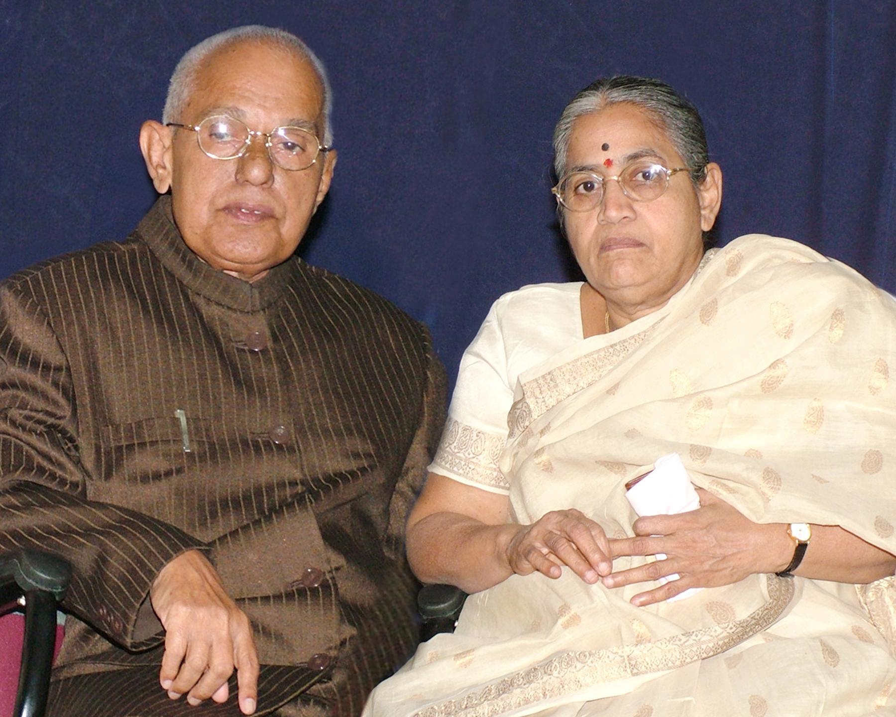 The founders Dr.M..Sivalinga Prasadarao, Annapurna of the PNC & KR college, Narasaraopet